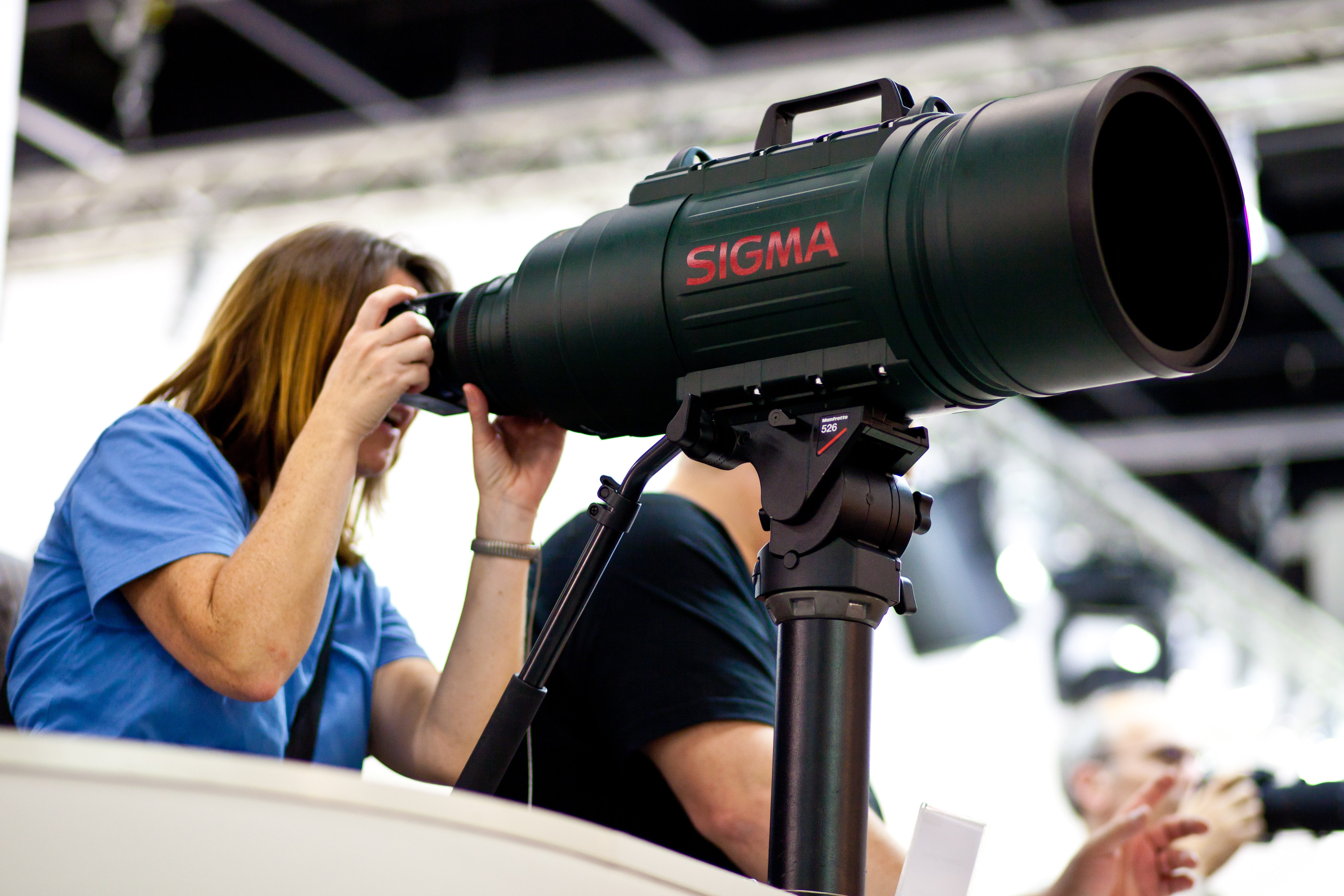 «Sigma 200-500mm F2.8 APO EX DG» at Photokina 2010 show, Cologne.